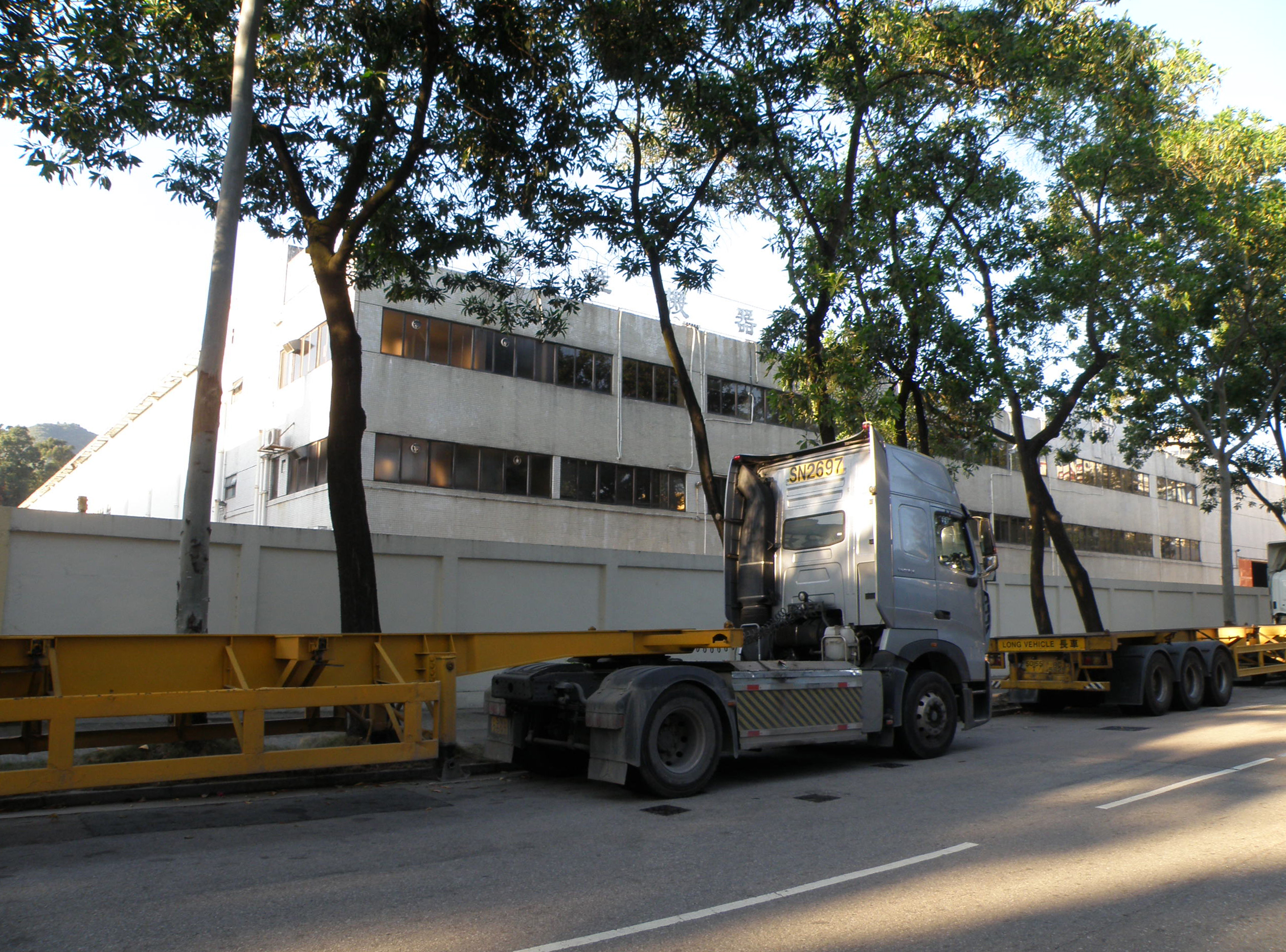 Chen Hsong Machinery Company Limited in Tai Po, Hong Kong.